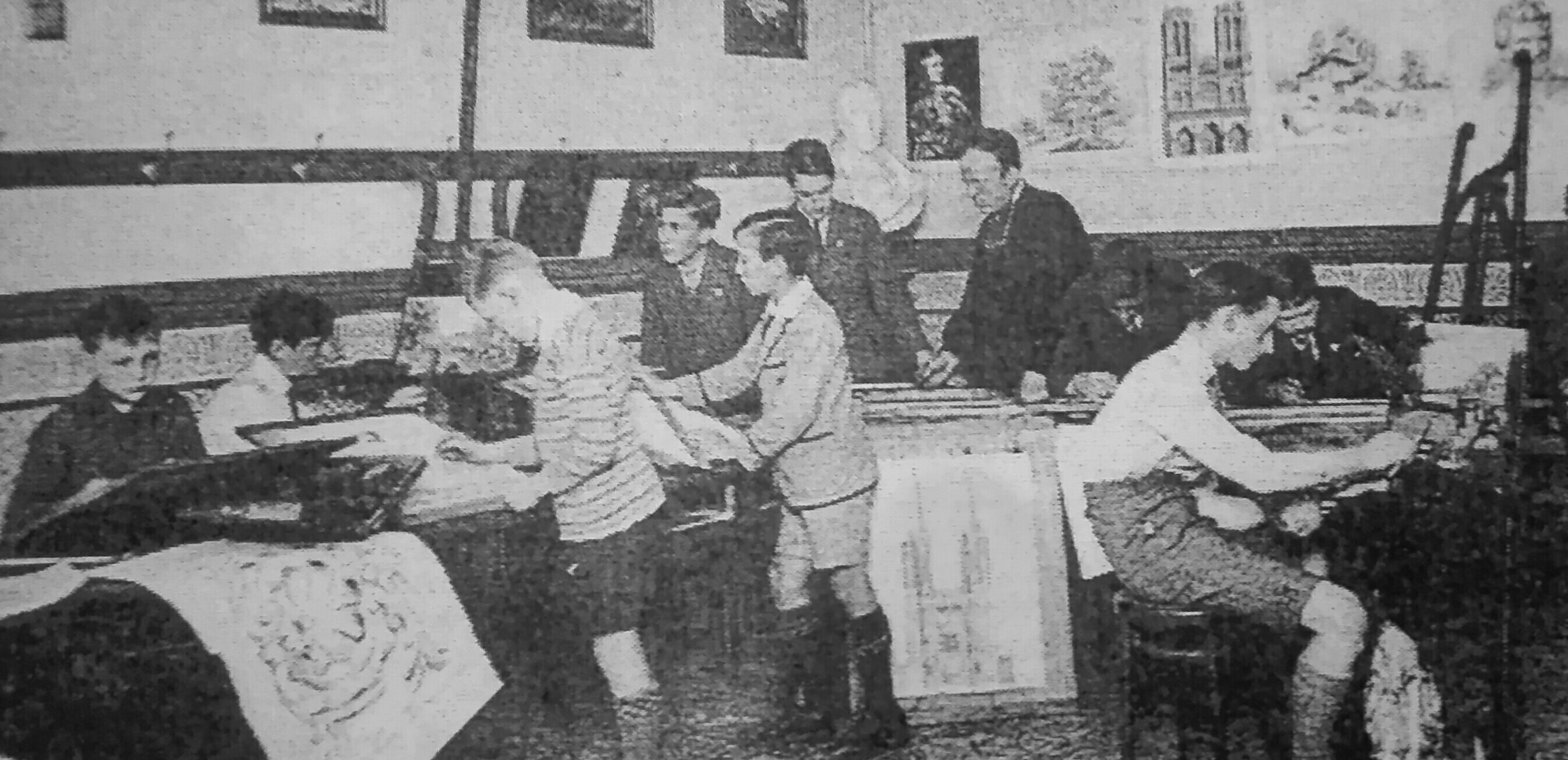 Old picture from children of the Sint-Gabriëlcollege in Boechout (Belgium). The author is unknown and the picture is older than 70 years.